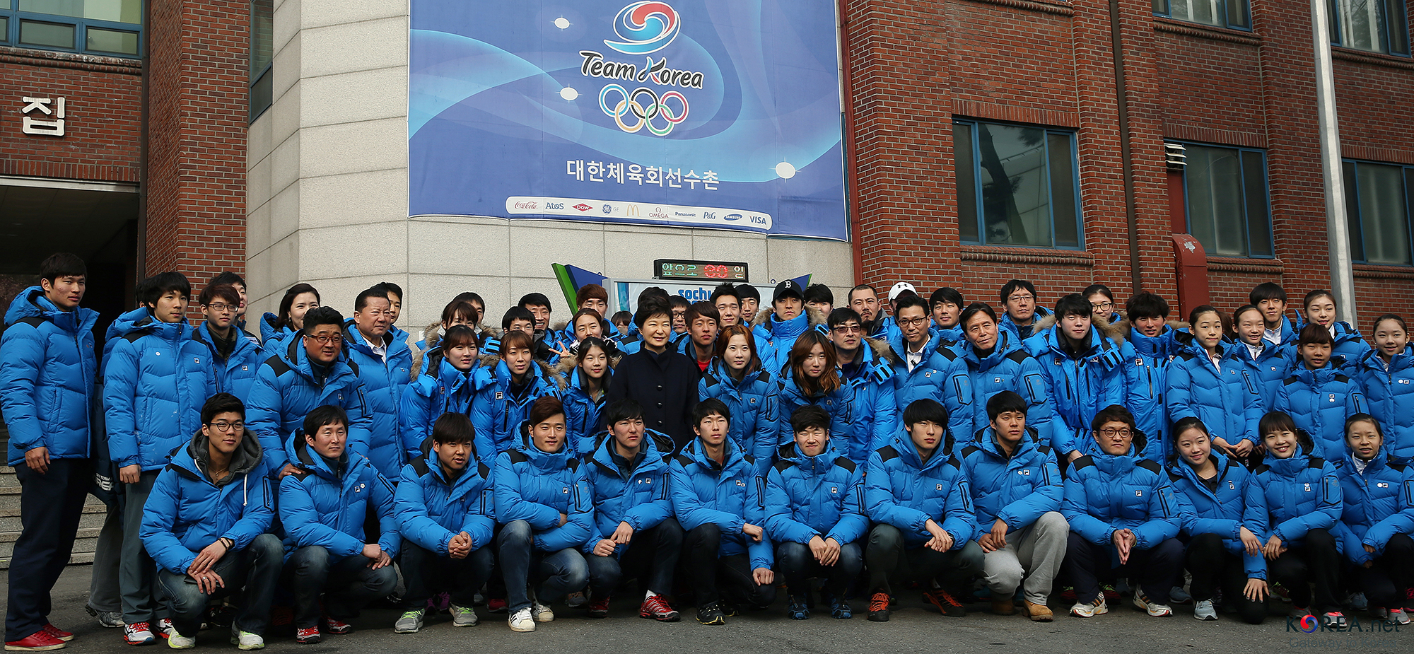 D-30 Sochi 2014 Winter Olympics President Park Geun-hye poses for a group photo with the national Olympic team at the Korea National Training Center in Taeneung, Seoul, on January 8. The team is on its way to Russia for the Sochi Winter Olympic Games 2014. January 8, 2014. Korea National Training Center in Taeneung, Seoul -Related Articles- Cheong Wa Dae `Enjoy your time in Sochi`: President `Enjoy your time in Sochi`: President Ministry of Culture, Sports and Tourism Korean Culture and Information Service ( JEON HAN 2014 소치 동계올림픽 D-30 박근혜 대통령이 ‘2014 소치 동계올림픽’을 30일 앞둔 8일 태릉선수촌에서 국가대표 선수들과 함께 기념촬영을 하고 있다. 2014-01-08 태릉선수촌, 서울 문화체육관광부 해외문화홍보원 코리아넷 전한